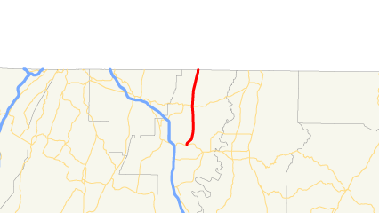 Map of Georgia State Route 71